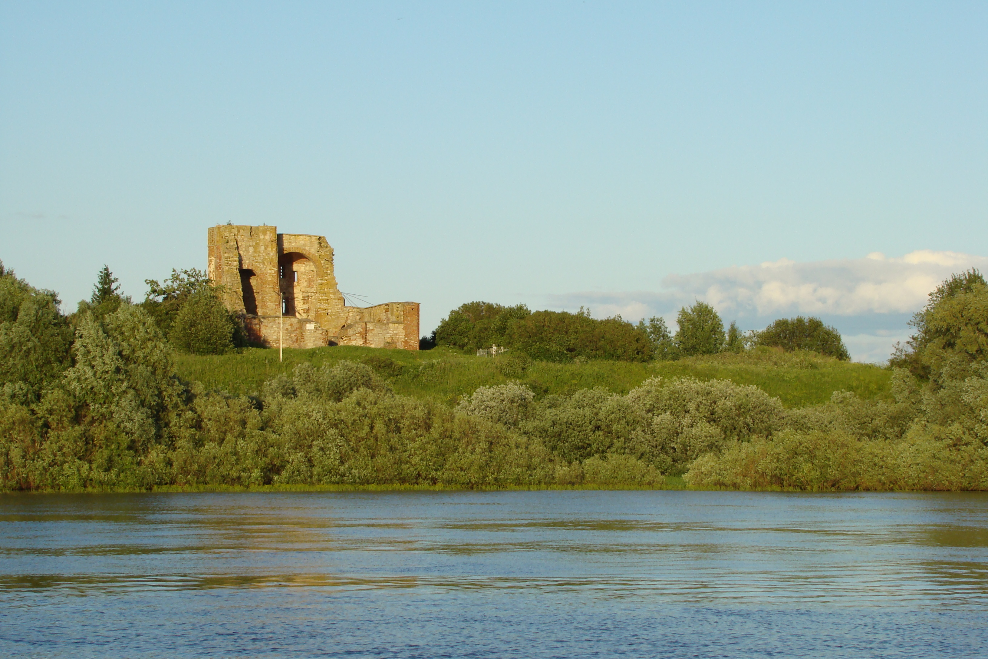 Riurikovo Gorodishche